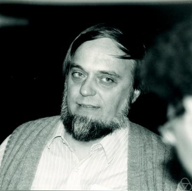 Volker Weispfenning, Oberwolfach 1988